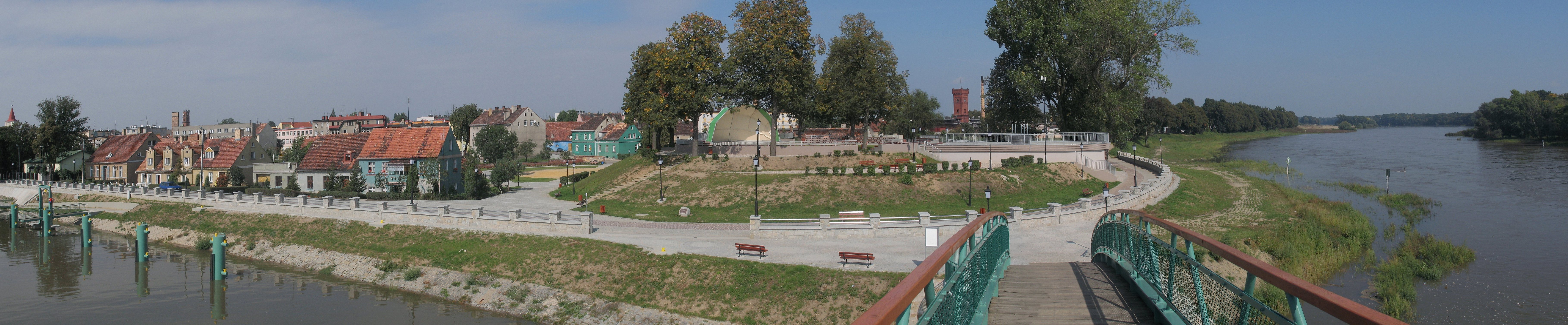 view of the river port in Nowa Sól